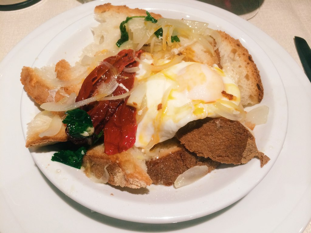 Acquasale from Avigliano, traditional recipe of Basilicata